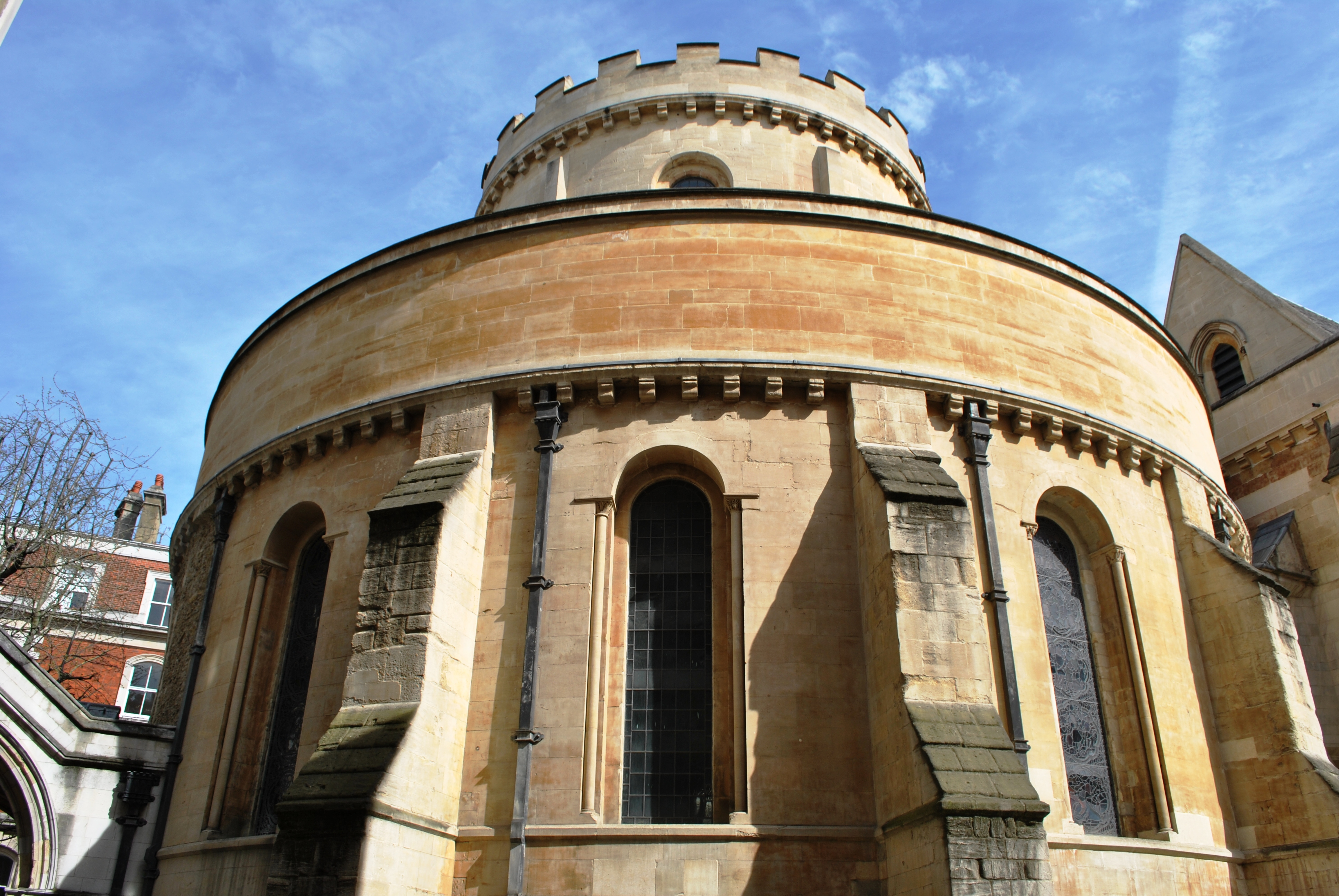 The Temple Church is a late 12th-century church in the City of London located between Fleet Street and the River Thames, built by the Knights Templar as their English headquarters. During the reign of King John (1199–1216) it served as the royal treasury, supported by the role of the Knights Templars as proto-international bankers. It is jointly owned by the Inner Temple and Middle Temple[2] Inns of Court, bases of the English legal profession. It is famous for being a round church, a common design feature for Knights Templar churches, and for its 13th and 14th century stone effigies. It was heavily damaged by German bombing during World War II and has since been greatly restored and rebuilt. The area around the Temple Church is known as the Temple and nearby formerly in the middle of Fleet Street stood the Temple Bar, an ornamental processional gateway. Nearby is the Temple Underground station.